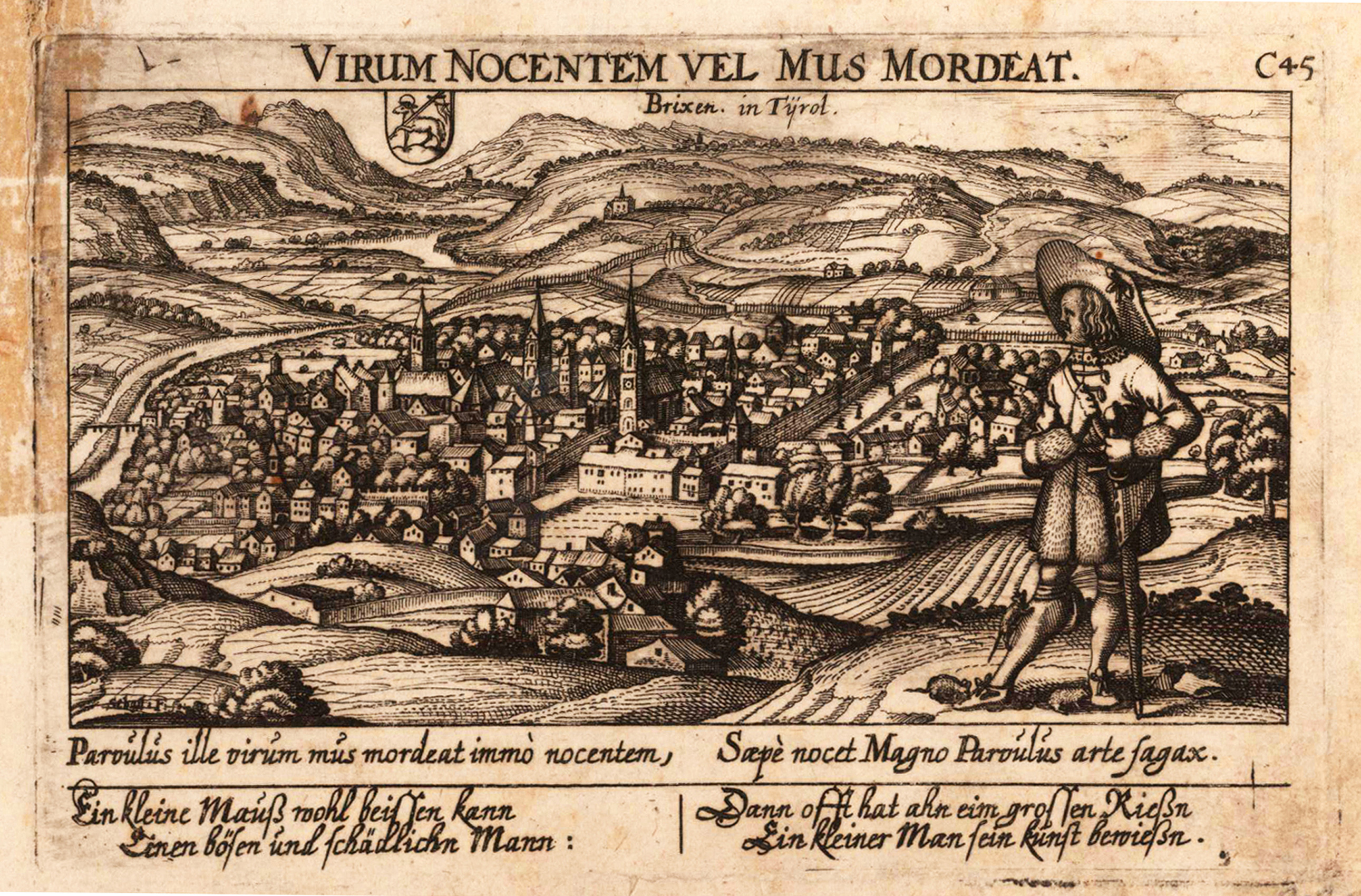 View of Brixen, Tyrol. Brixen was the cathedral town of the prince-bishopric of the same name. One of a series of 830 engravings, mostly city views, from Thesaurus philopoliticus oder Politisches Schatzkästlein, published in 1625 and subsequent years in Frankfurt. The engraving contains maxims and philosophical aphorisms by co-editor and poet Daniel Meisner.